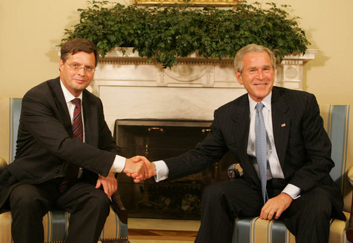 Prime-Minister of the The Netherlandse Jan Peter Balkenende visits President George W. Bush